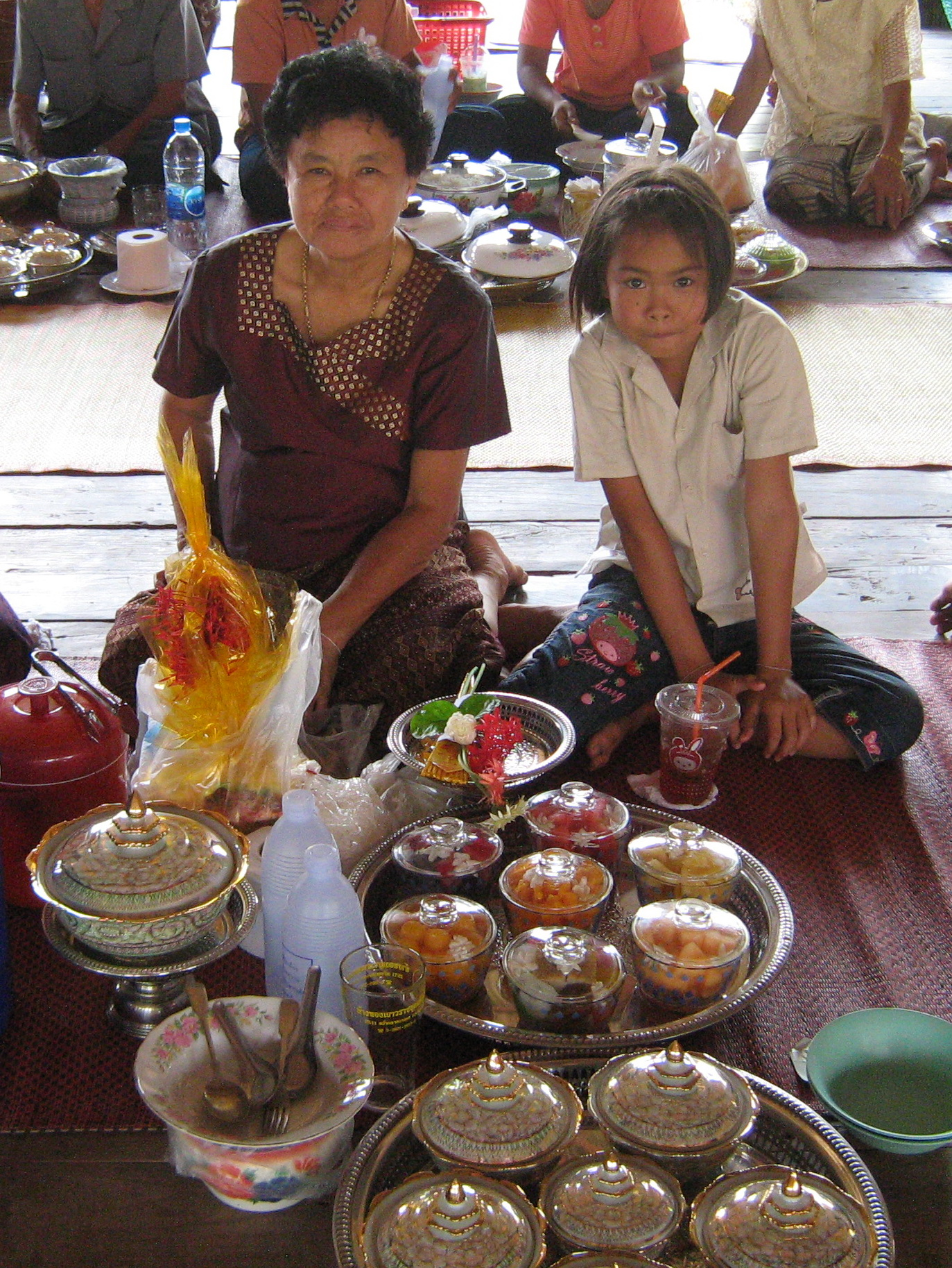 Food ticket of Thai Buddhist for dedicates to Buddhist monk in Ban Pa Sao, Pa Sao subdistrict, Mueang Uttaradit, Uttaradit Province, Thailand.